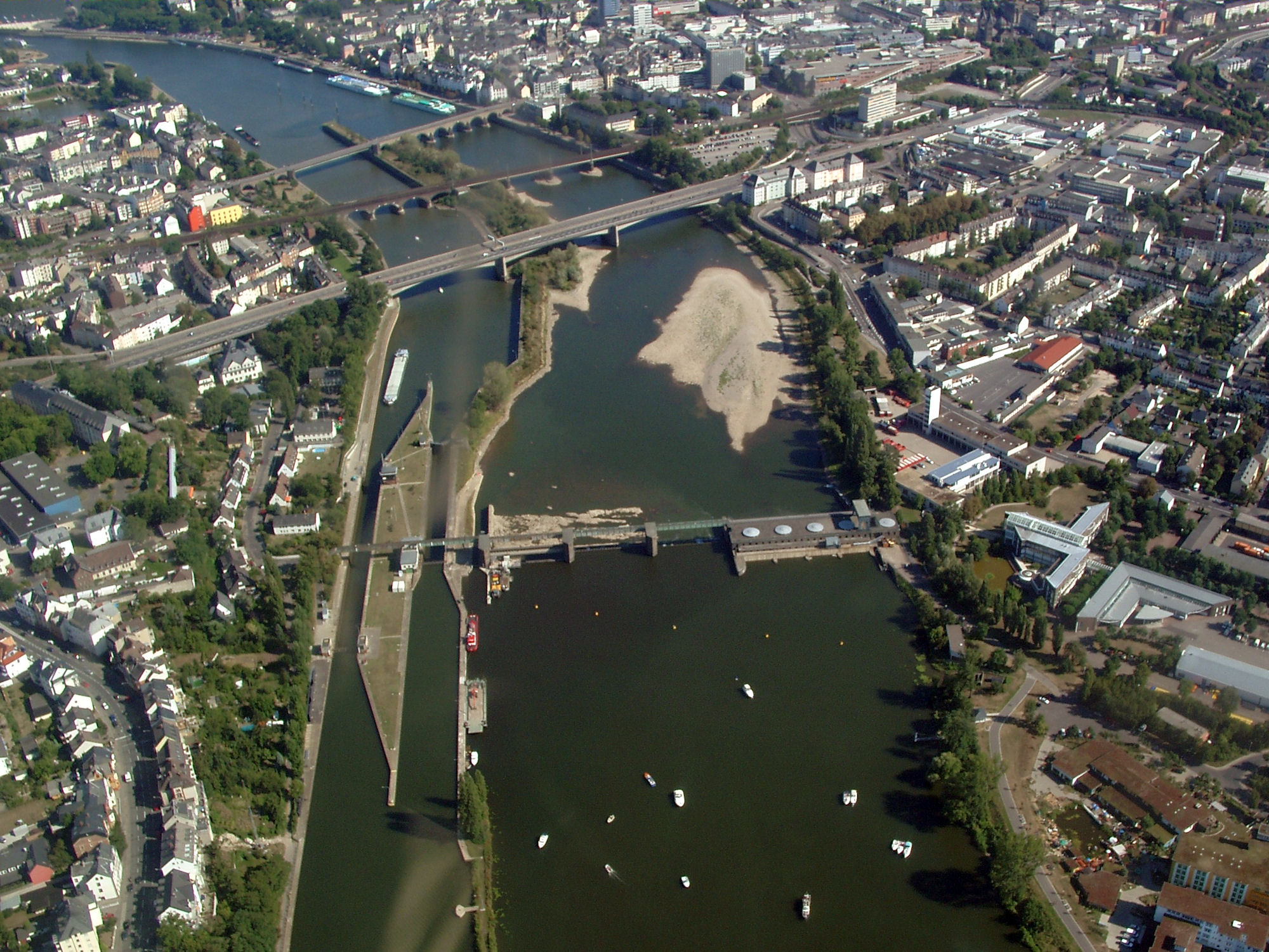 Barrage Koblenz